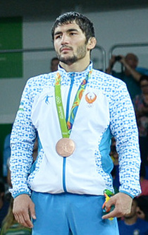 2016 Summer Olympics, Men's Freestyle Wrestling 65 kg awarding ceremony